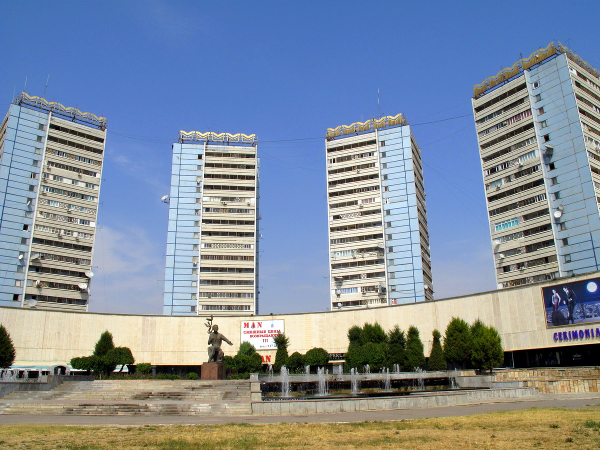 Residential Towers